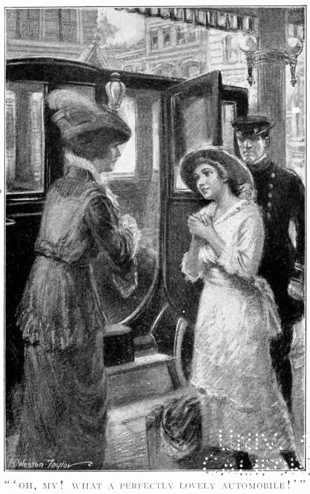 Illustration from "Pollyanna Grows Up". Chapter 3.